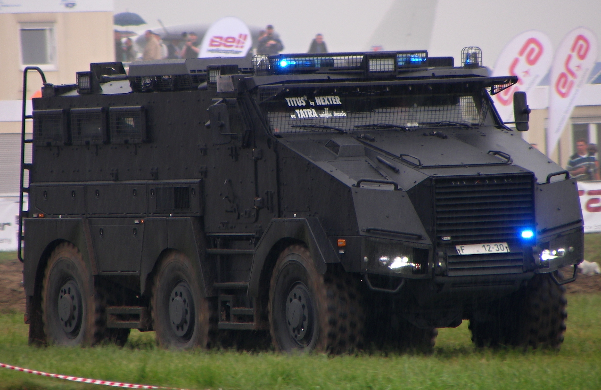 French police's TITUS by NEXTER on TATRA chassis, NATO Days 2016, Ostrava Airport, Czech Republic